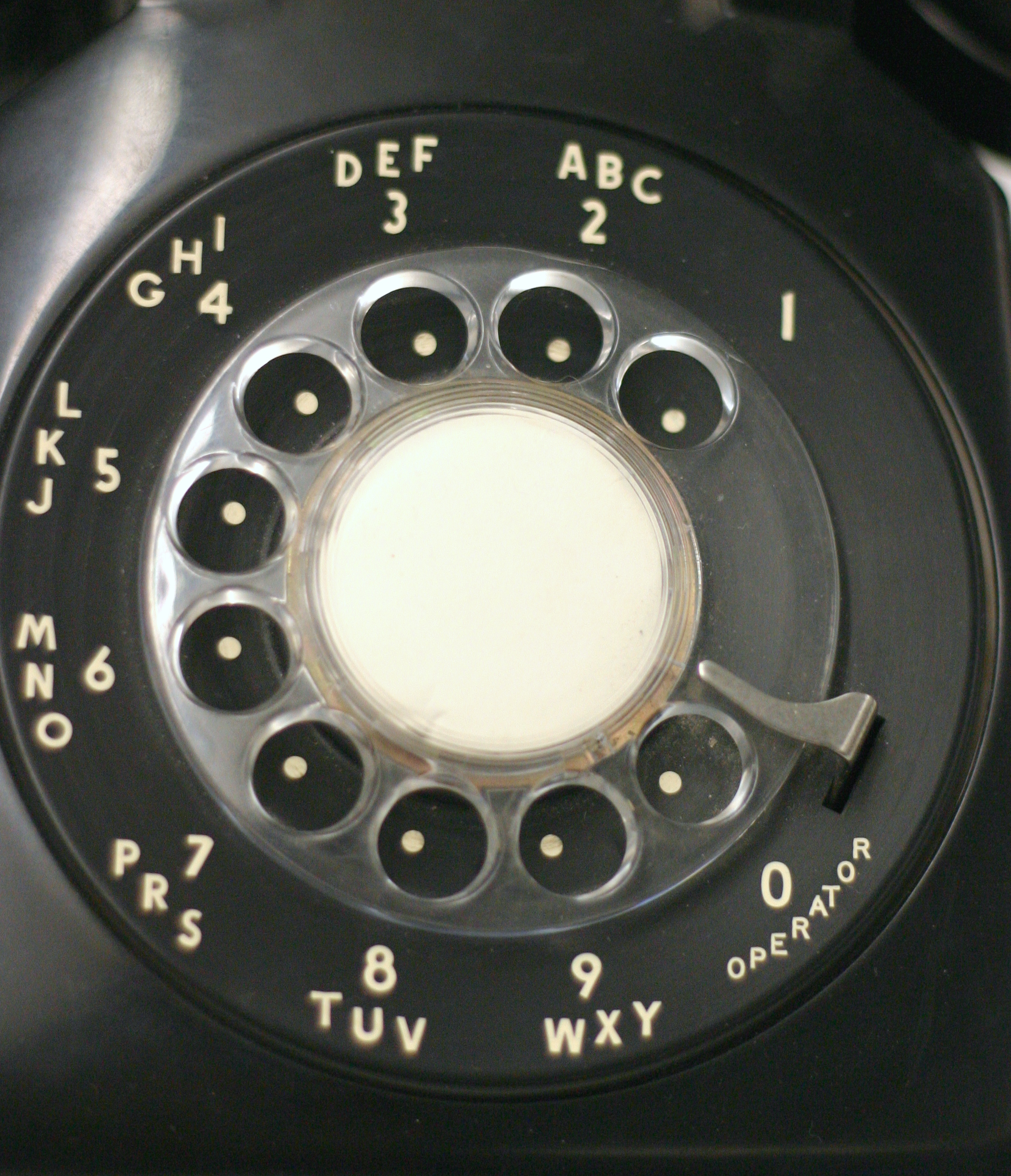 UK dial for comparison A close up of a dial on a rotary phone. This is the North American layout with letter O confusingly mapped to digit 6.